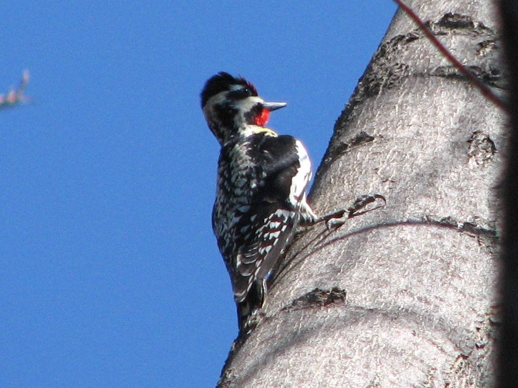 Male Yellow-bellied Sapsucker (Sphyrapicus varius) Ottawa, Ontario